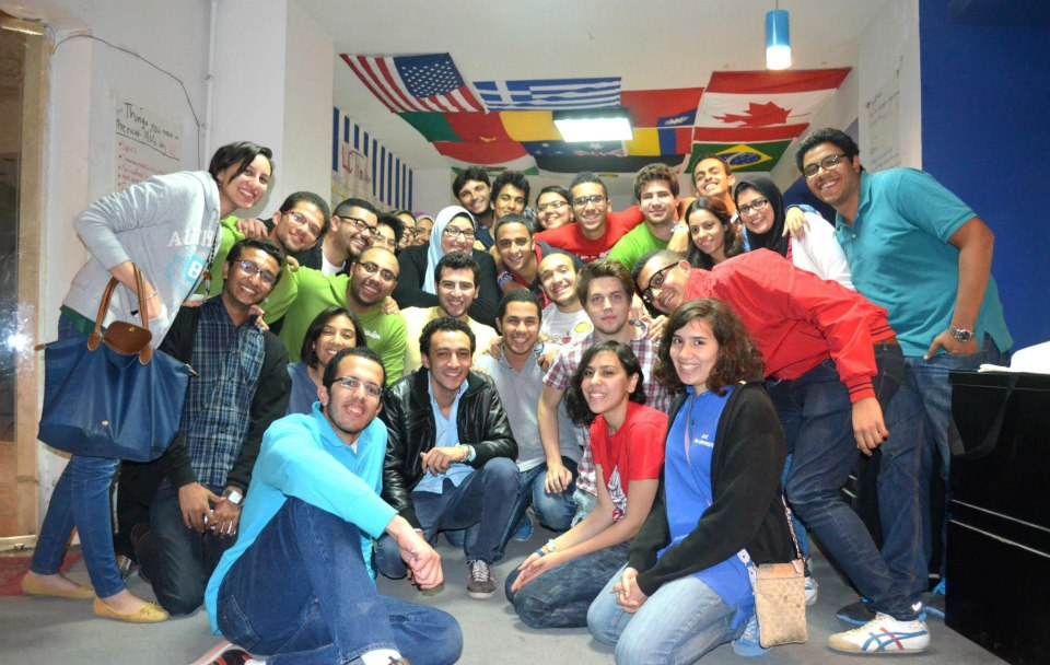 AIESEC Alexandria in Egypt